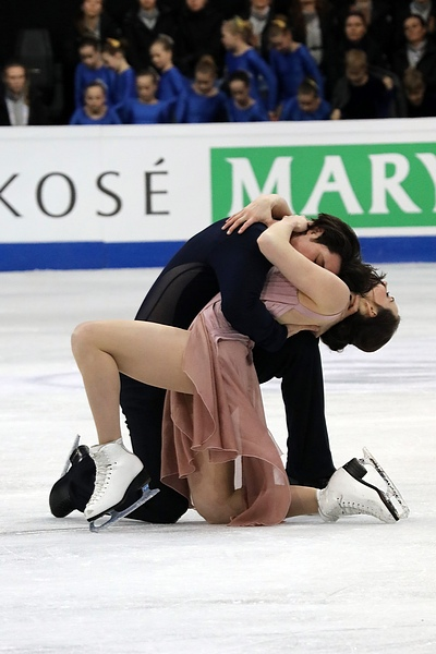 Tessa Virtue and Scott Moir at the 2017 World Championships